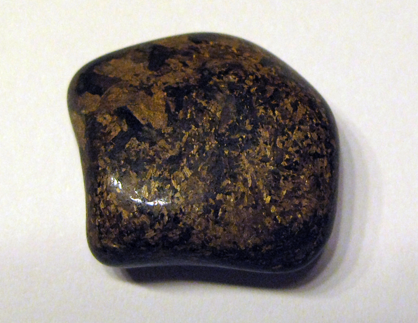 Bronzite, Variety of Enstatite